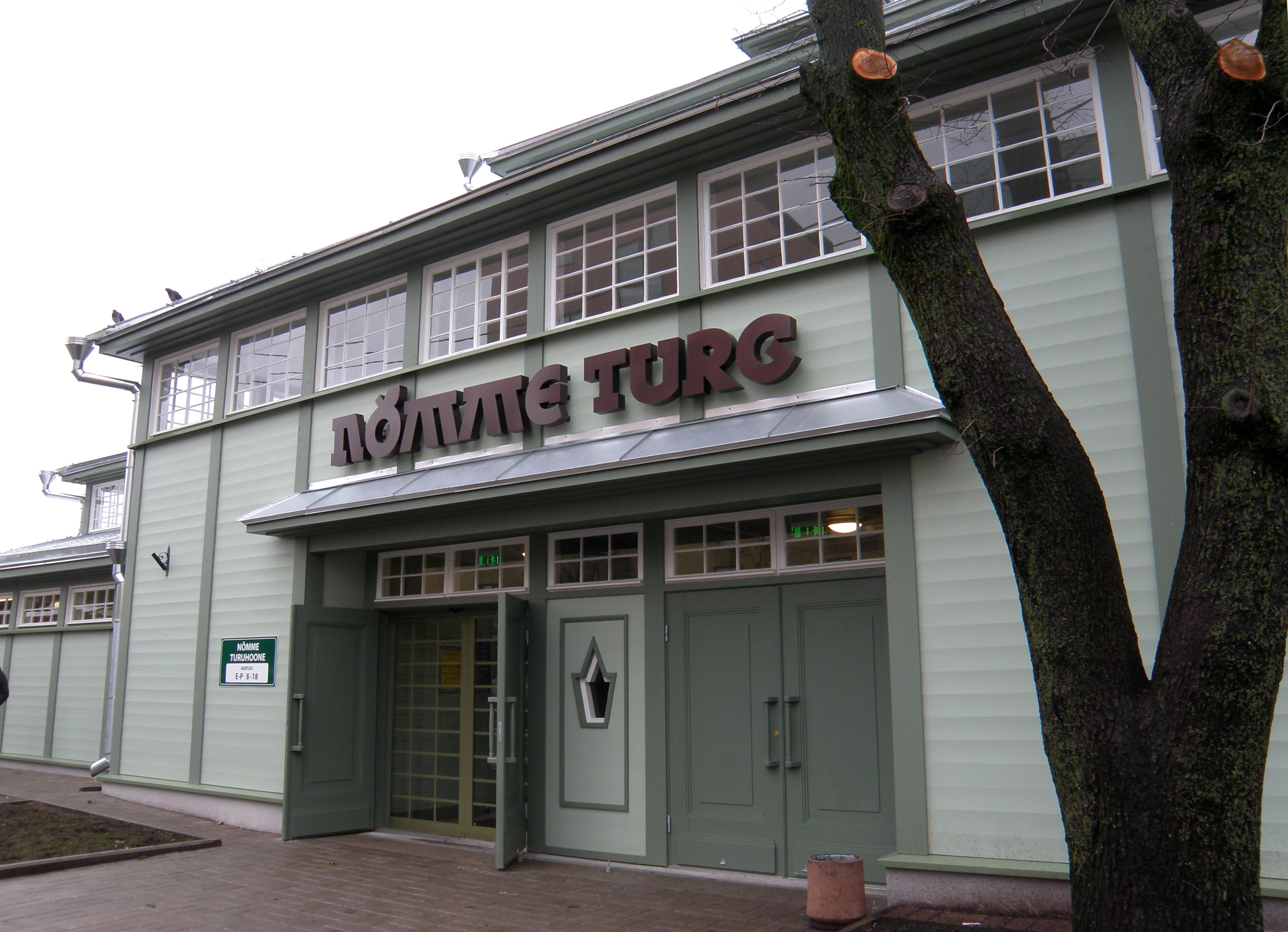 Nõmme market